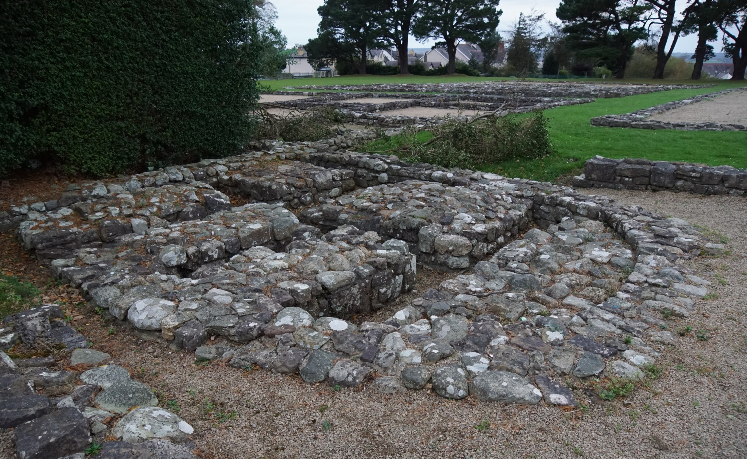 Segontium Roman Fort, Caernarfon, Wales. Granary.